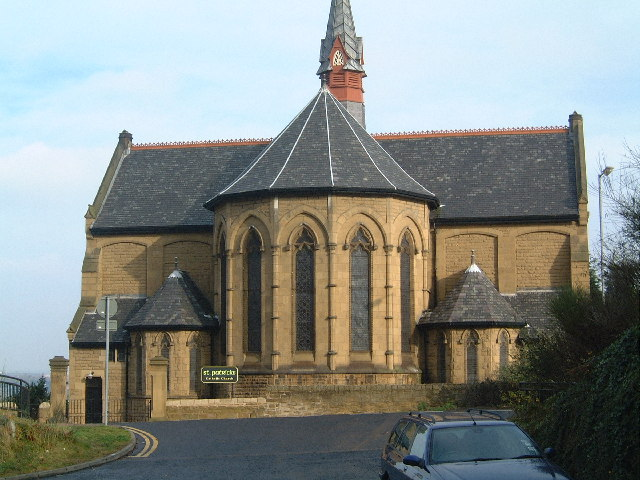 St Patrick's Roman Catholic church, Felling, Gateshead, seen from the southwest